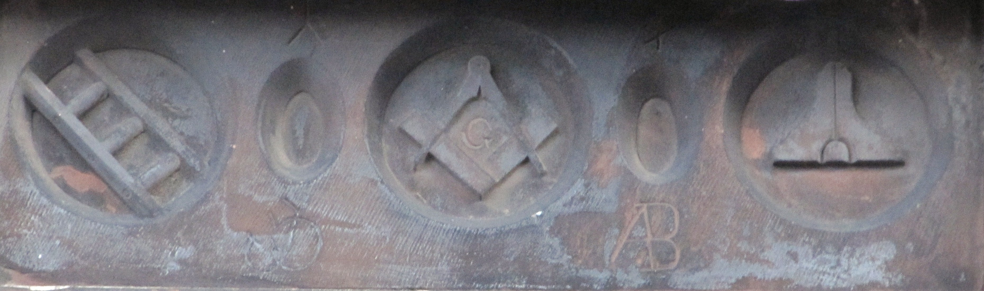 Masonic Symbols, Trafalgar Lodge, off Henderson Street, Leith, Edinburgh